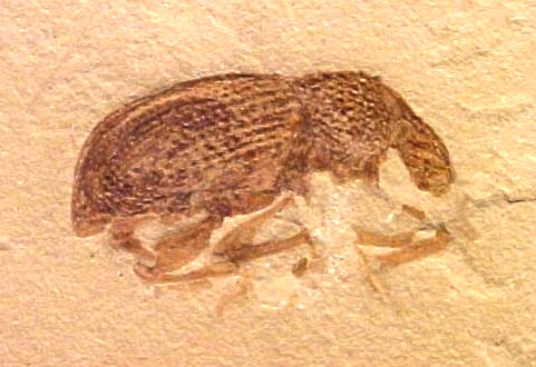 Original description: Insect fossil, Order Coleoptera, Family Curculionidae — a weevil. Middle Eocene Green River Formation, Uintah County, Utah.